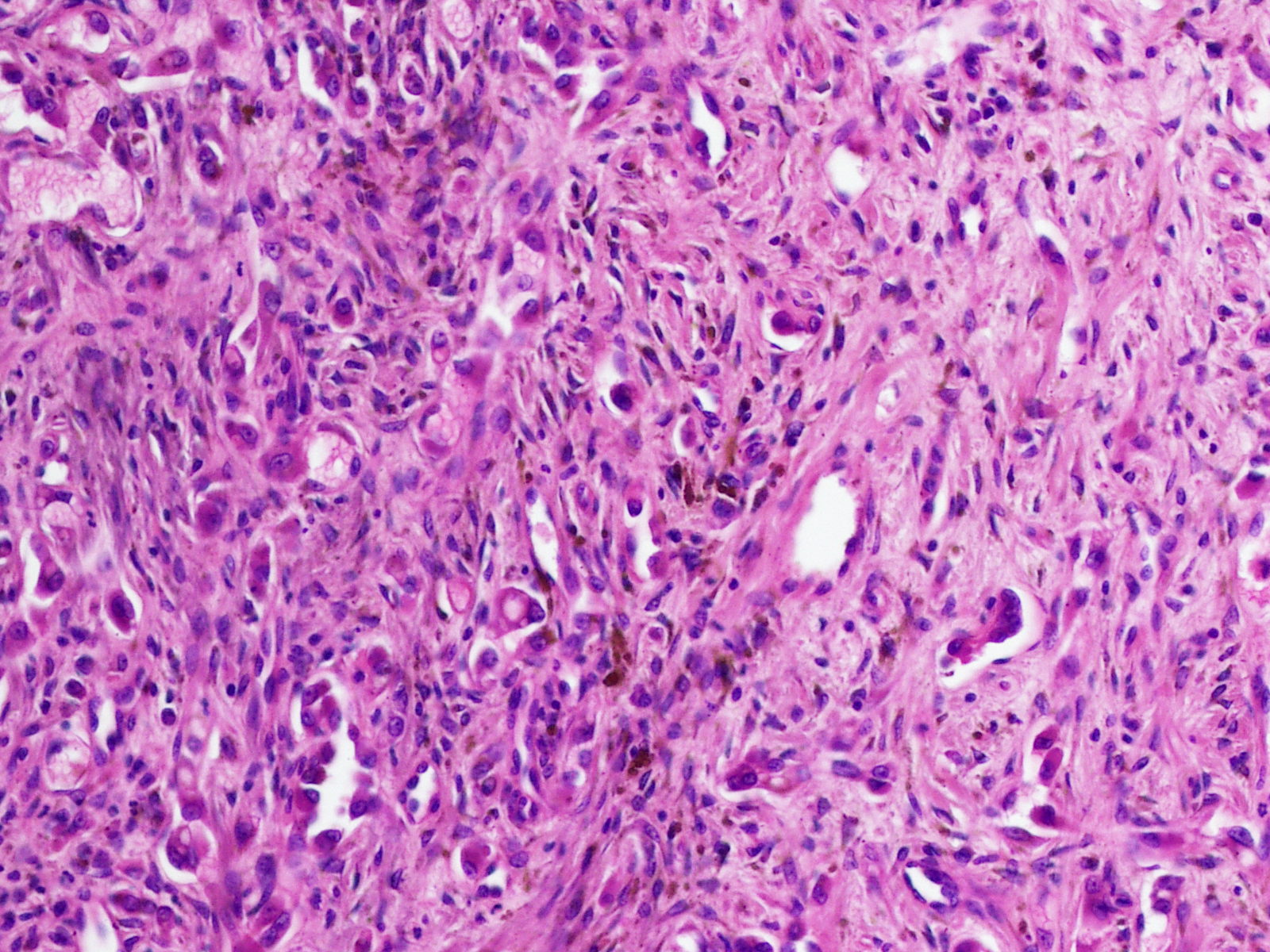 Kaposi sarcoma, nodular stage